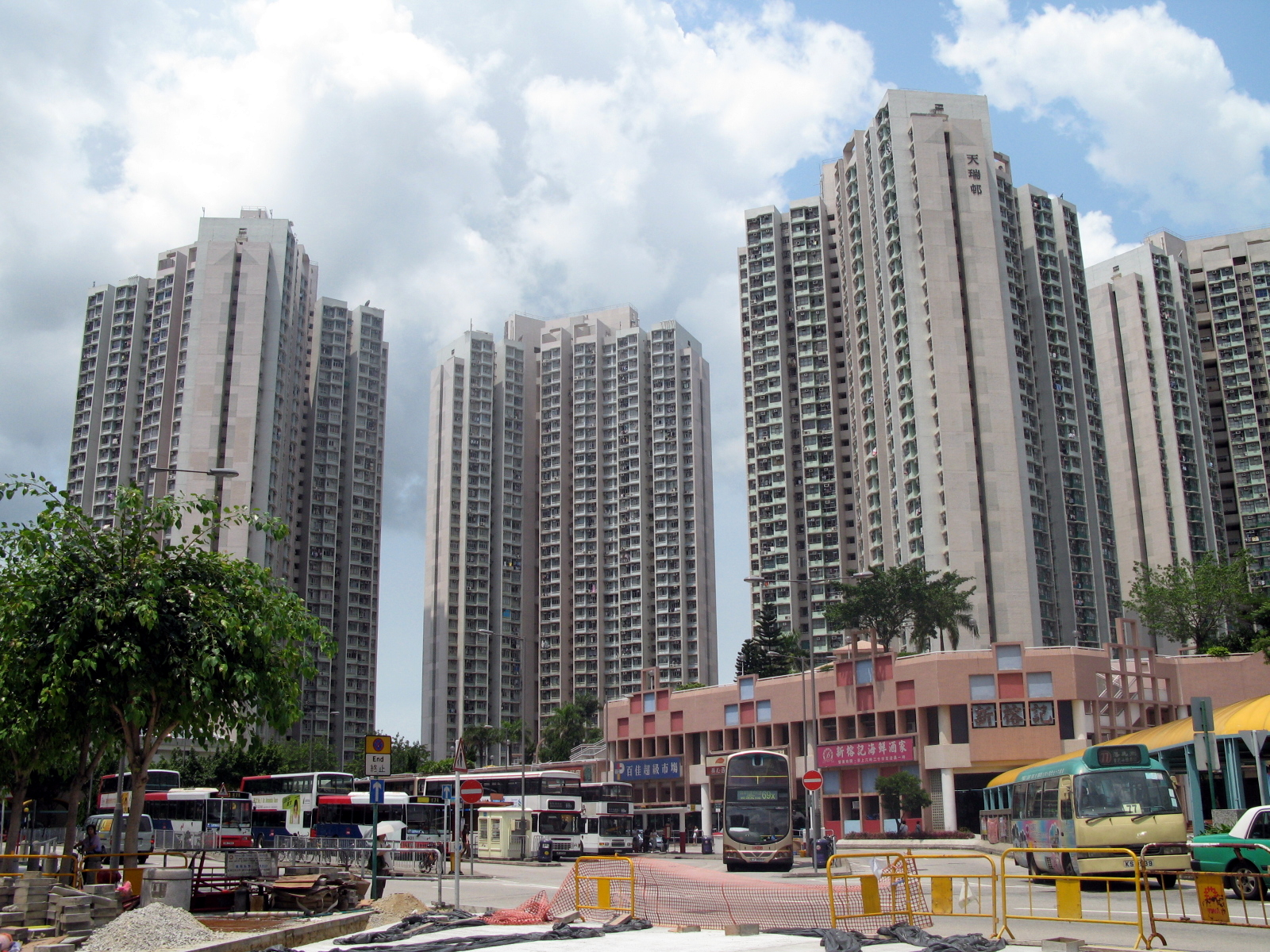 Tin Shui Estate bus terminus in Tin Shui Wai